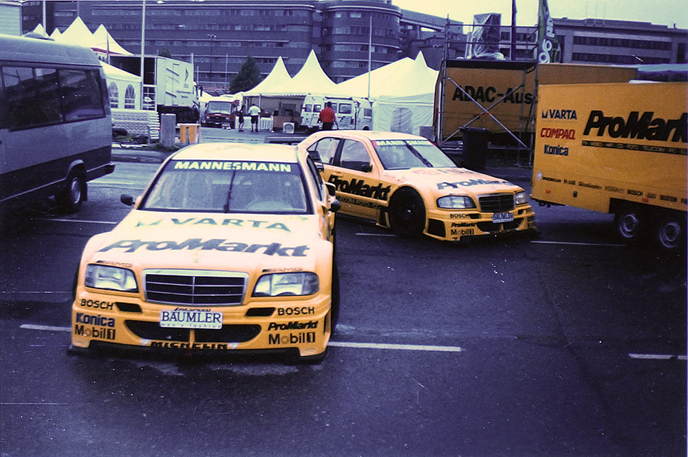 Two Mercedes-Benz cars after Helsinki Thunder DTM race in 1995